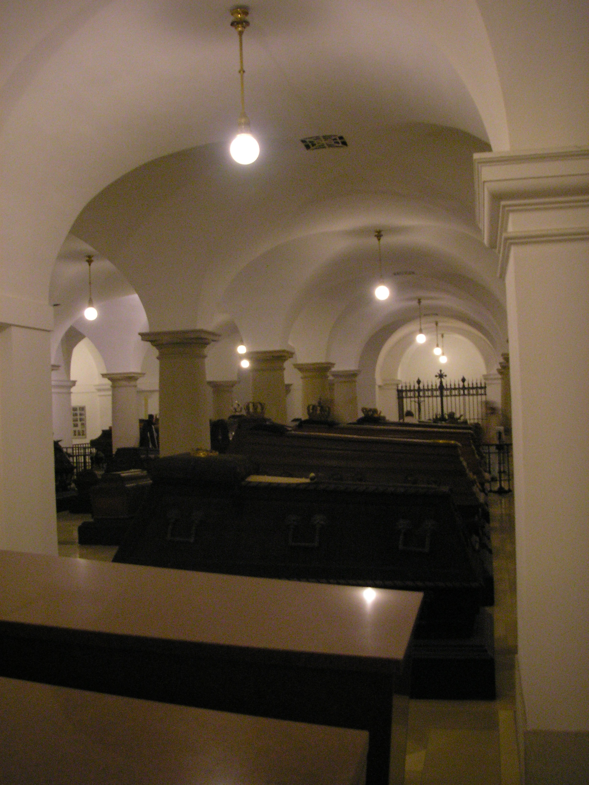 Description: Crypt (Gruft) of the Hohenzollern dynasty, Berliner Dom. Source: Self-made, I release it into the public domain. Gryffindor 15:16, 11 April 2006 (UTC)